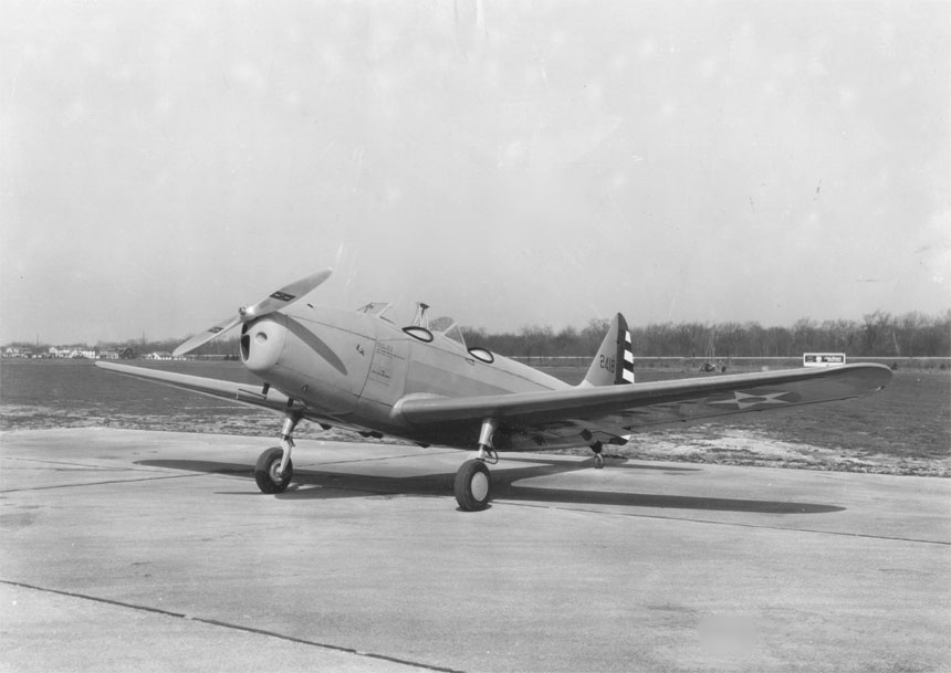 Description: Fairchild PT-19 - Ranger L-440-1 Engine (Aircraft # 40-2418) (19752 A.C.)